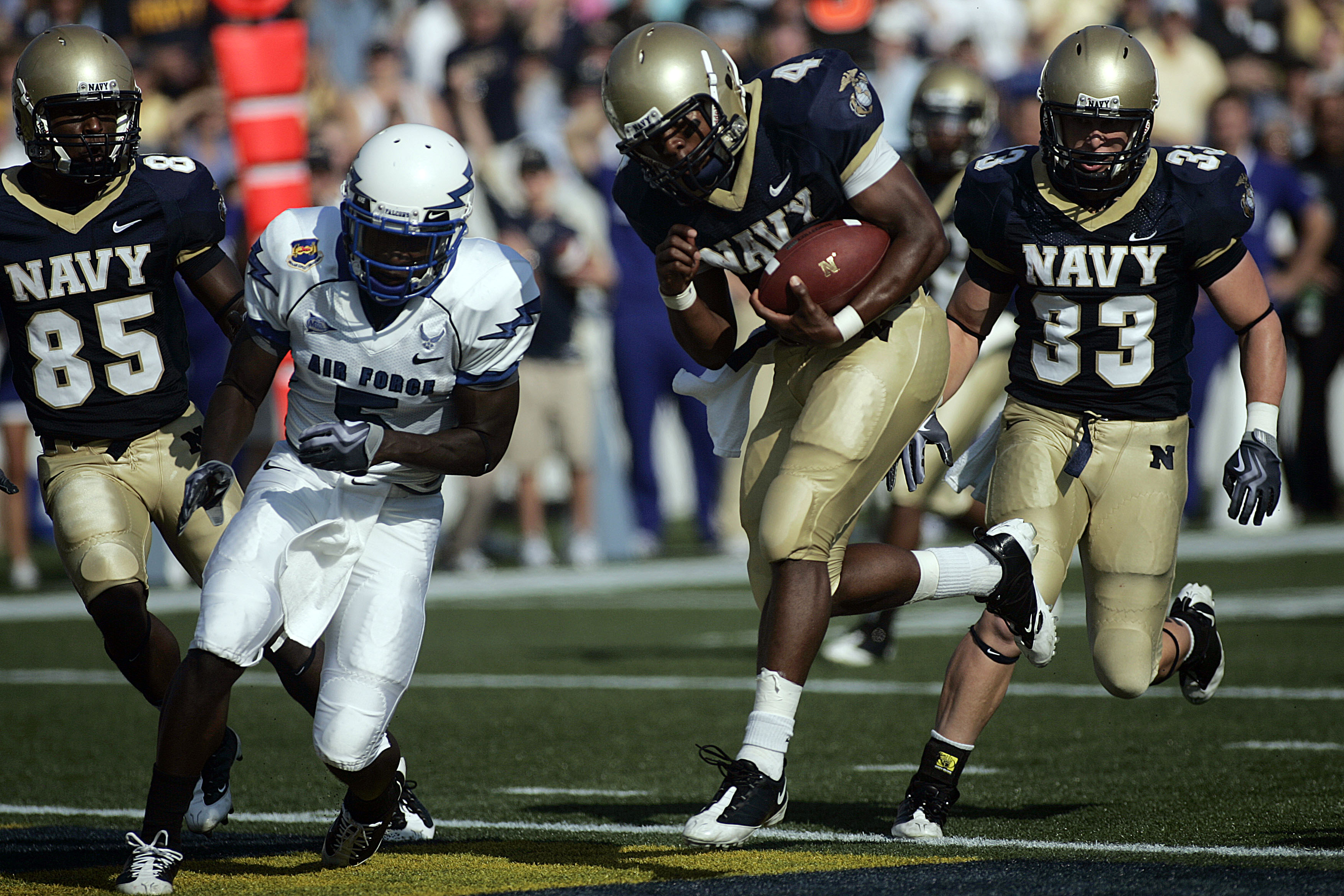 ANNAPOLIS, Md. (Oct. 3, 2009) U.S. Naval Academy quarterback Ricky Dobbs (#4) scores a touchdown in the first quarter during a college football game against the U. S. Air Force Academy. (U.S. Navy photo by Oscar Sosa/Released)